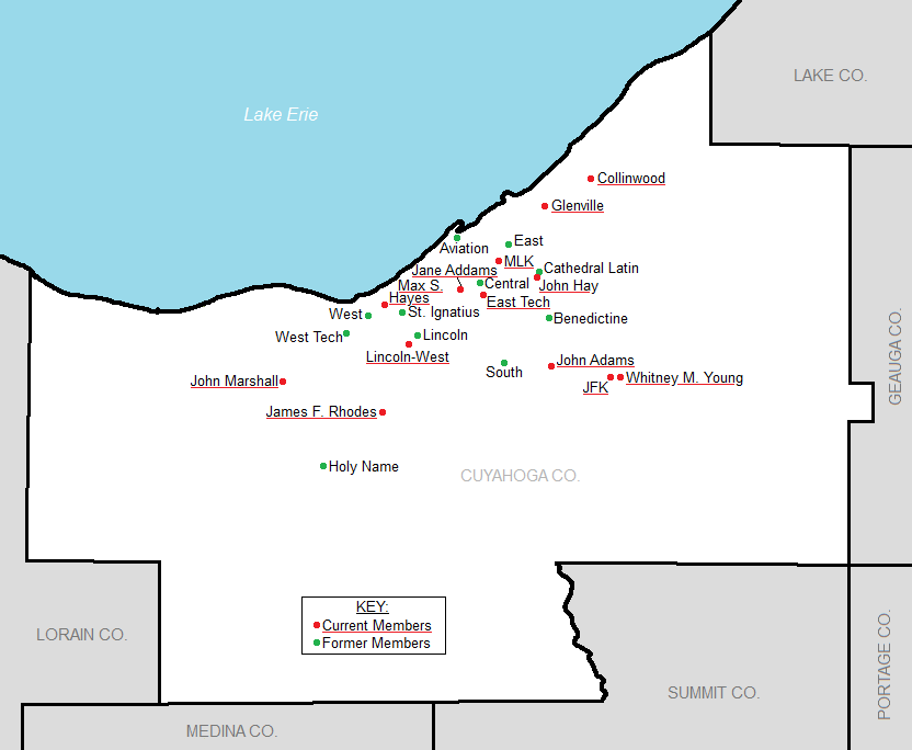 Map showing the all-time members of the Senate Athletic League.